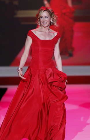 The Heart Truth® is a national awareness campaign for women about heart disease sponsored by the National Heart, Lung, and Blood Institute (NHLBI), part of the National Institutes of Health, U.S. Department of Health and Human Services (HHS). The Red Dress®, introduced by the NHLBI in 2002, is the national symbol for women and heart disease awareness. Visit for information on women and heart disease. ®, TM The Heart Truth, its logo and The Red Dress are trademarks of HHS. Participation by Mercedes-Benz Fashion Week, Diet Coke, Swarovski, Tylenol, St. Joseph's Aspirin, Bobbi Brown, and Brian Atwood does not imply endorsement by HHS.